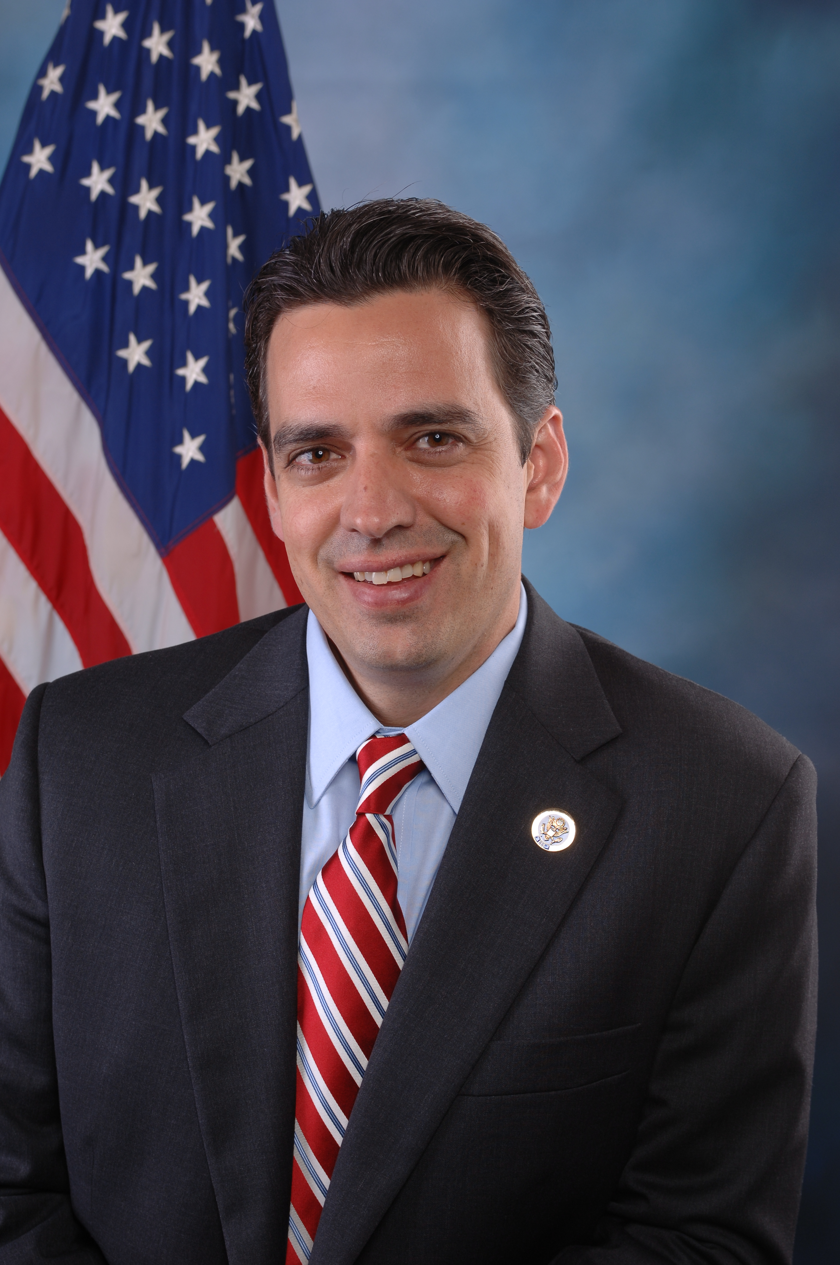 Official portrait of US Rep. Tom Graves